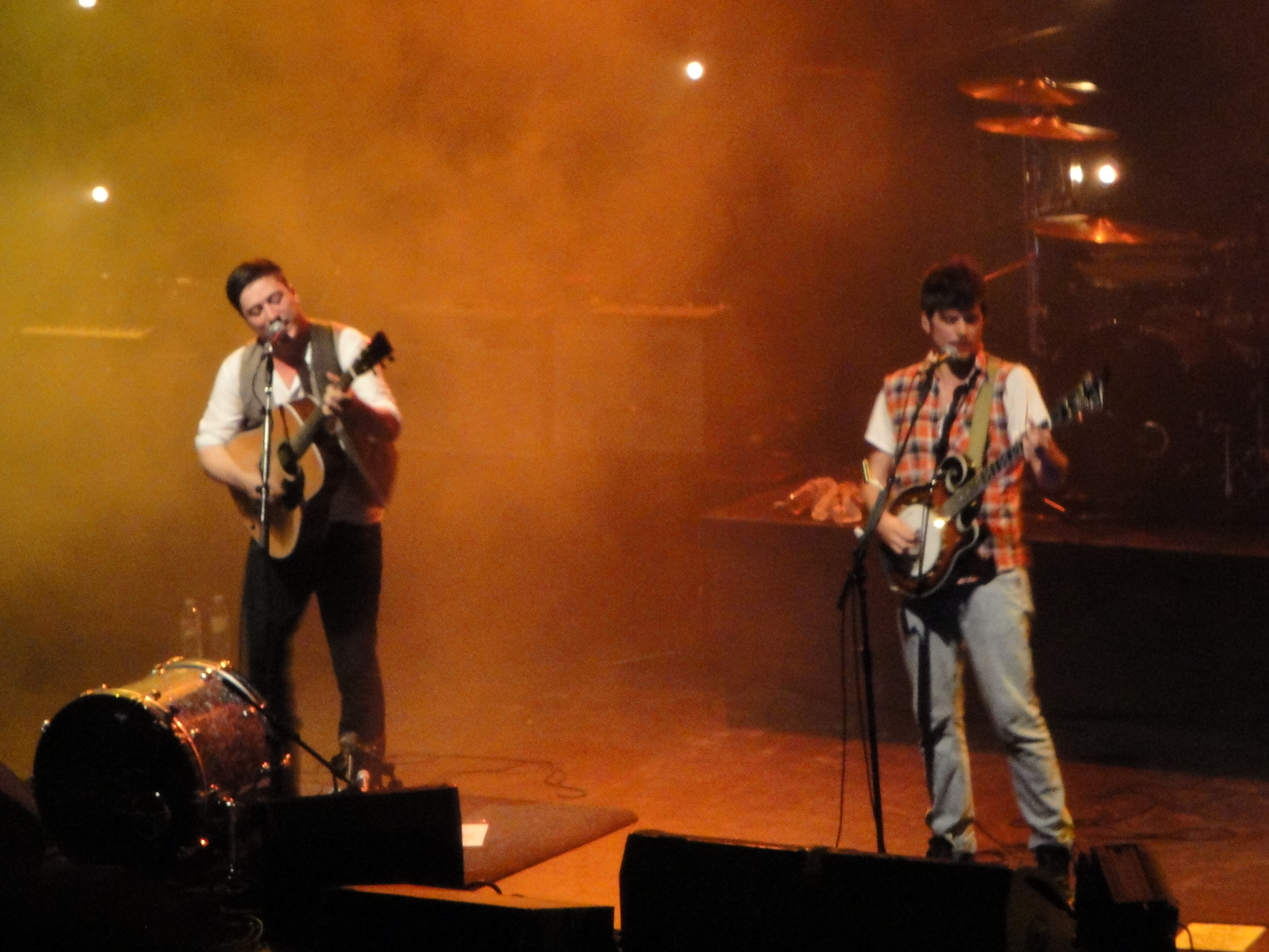 Mumford & Sons, seen during a liver performance at Brighton Dome, Brighton, East Sussex.